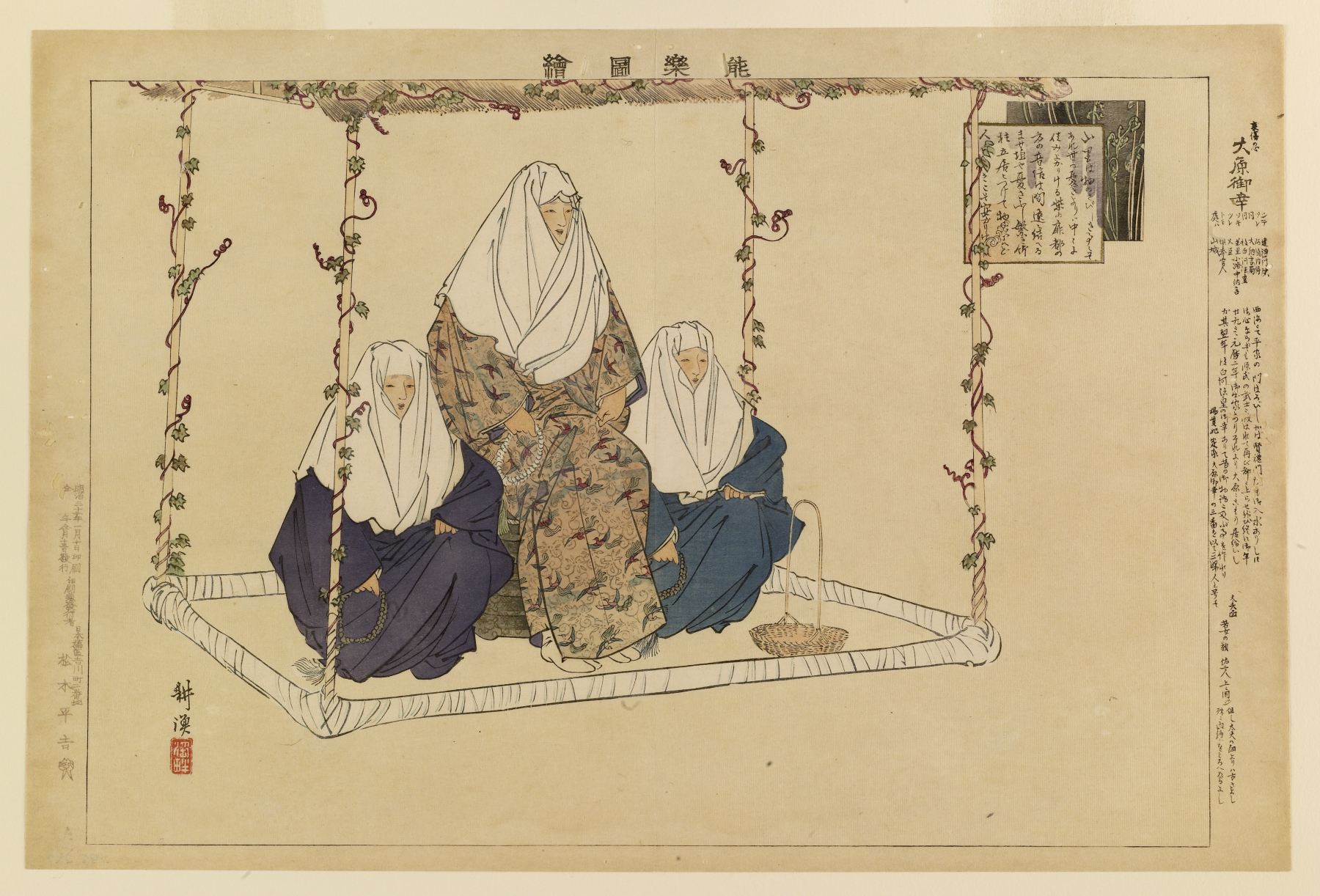 The former Empress Kenreimon-in has become a nun and is shown with two companions. The framework represents her rustic cottage at a convent in the hills of Kyoto, where the Retired Emperor Go-Shirakawa pays her a visit. In 1185, at the battle of Dan-no-ura, the empress, foreseeing defeat, had jumped into the sea with her mother and son, the child emperor. The child and his grandmother drowned, but the empress was pulled from the water by an enemy soldier.